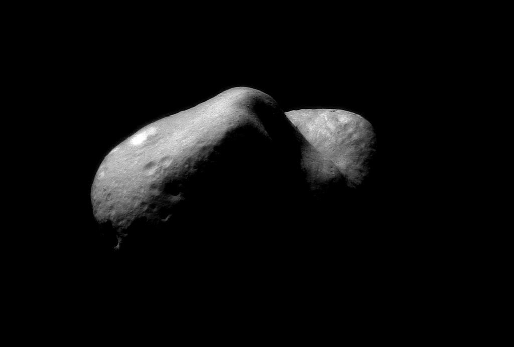 This picture of Eros, taken on February 14, 2001, shows the view looking from one end of the asteroid across the gouge on its underside and toward the opposite end. In this mosaic, constructed from two images taken after the NEAR spacecraft was inserted into orbit, features as small as 120 feet (35 meters) across can be seen. House-sized boulders are present in several places; one lies on the edge of the giant crater separating the two ends of the asteroid. A bright patch is visible on the asteroid in the top left-hand part of this image, and shallow troughs can be see just below this patch. The troughs run parallel to the asteroid's long dimension. (Mosaic of images 0125971425, 0125971487)